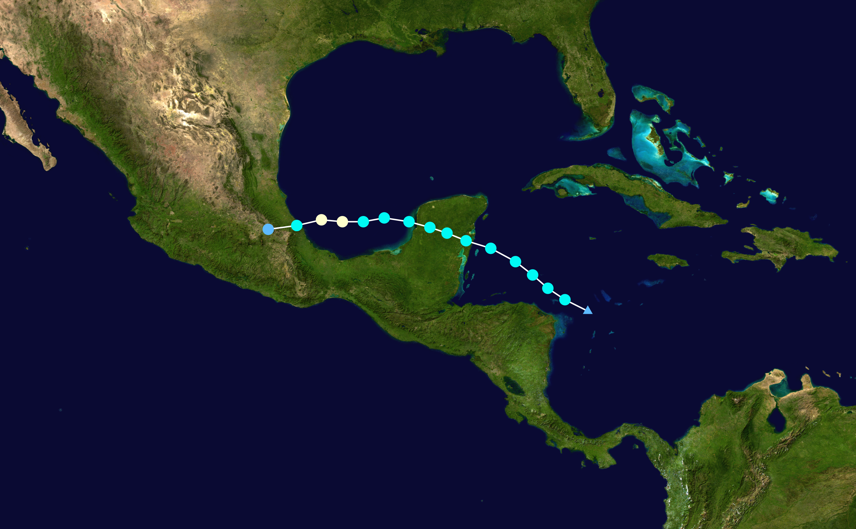 Track map of Hurricane Franklin of the 2017 Atlantic hurricane season. The points show the location of the storm at 6-hour intervals. The colour represents the storm's maximum sustained wind speeds as classified in the Saffir–Simpson scale (see below), and the shape of the data points represent the nature of the storm, according to the legend below. Saffir–Simpson scale Tropical depression≤38 mph≤62 km/h Category 3111–129 mph178–208 km/h Tropical storm39–73 mph63–118 km/h Category 4130–156 mph209–251 km/h Category 174–95 mph119–153 km/h Category 5≥157 mph≥252 km/h Category 296–110 mph154–177 km/h Unknown Storm type Tropical cyclone Subtropical cyclone Extratropical cyclone / Remnant low / Tropical disturbance / Monsoon depression